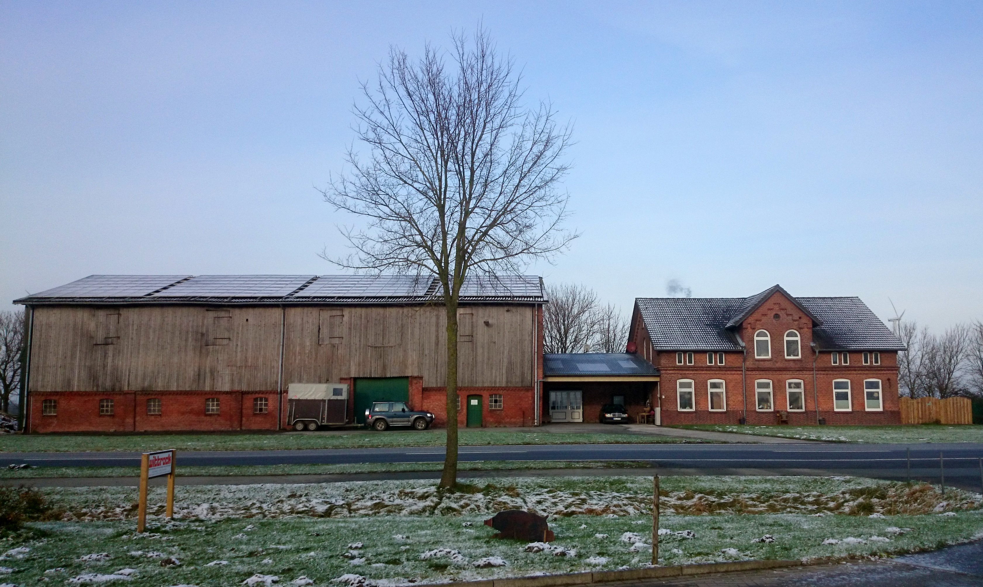 Farm house in Norderwöhrden, Kreis Dithmarschen